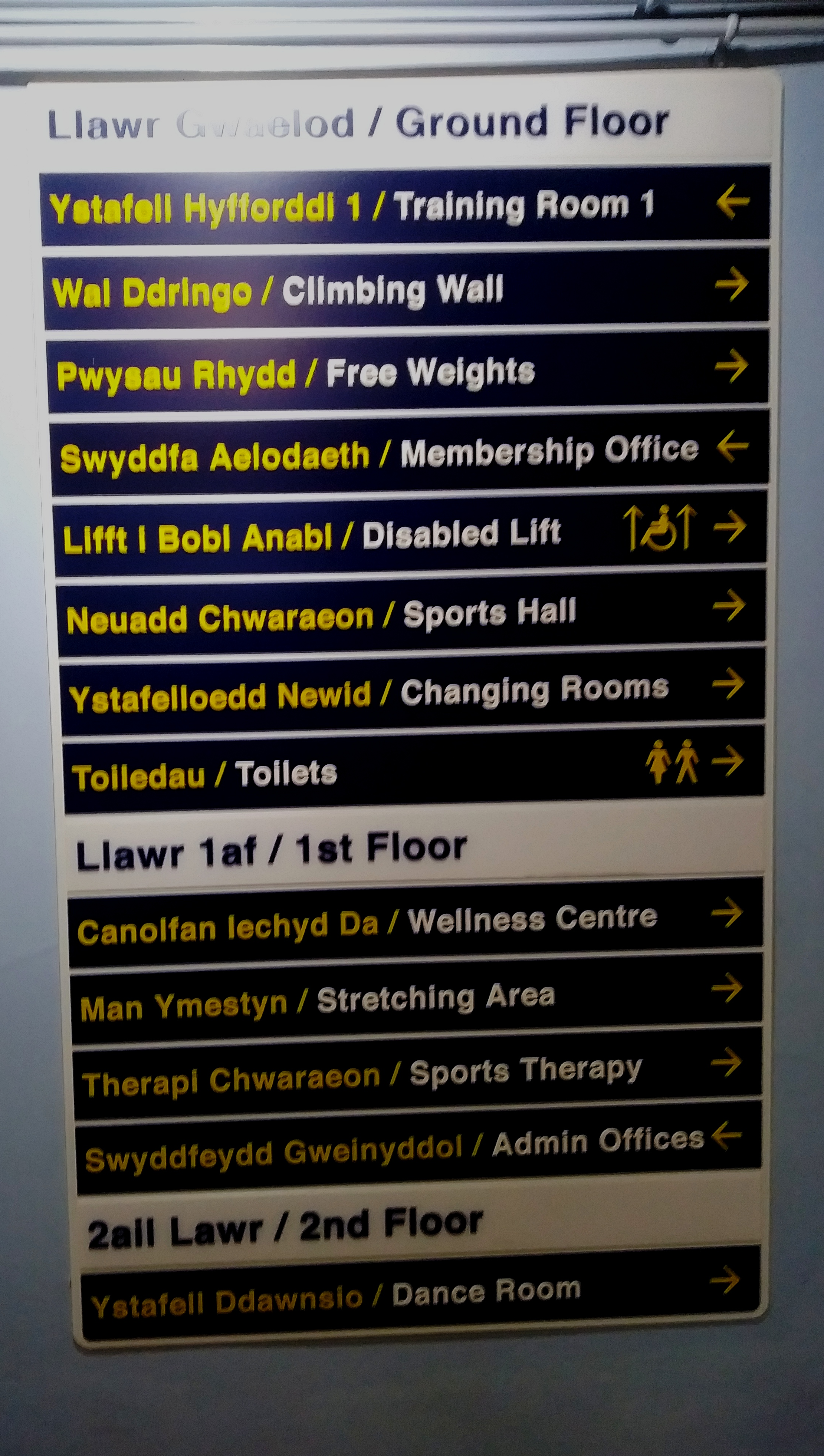 Signage Aberystwyth University Gymnasium